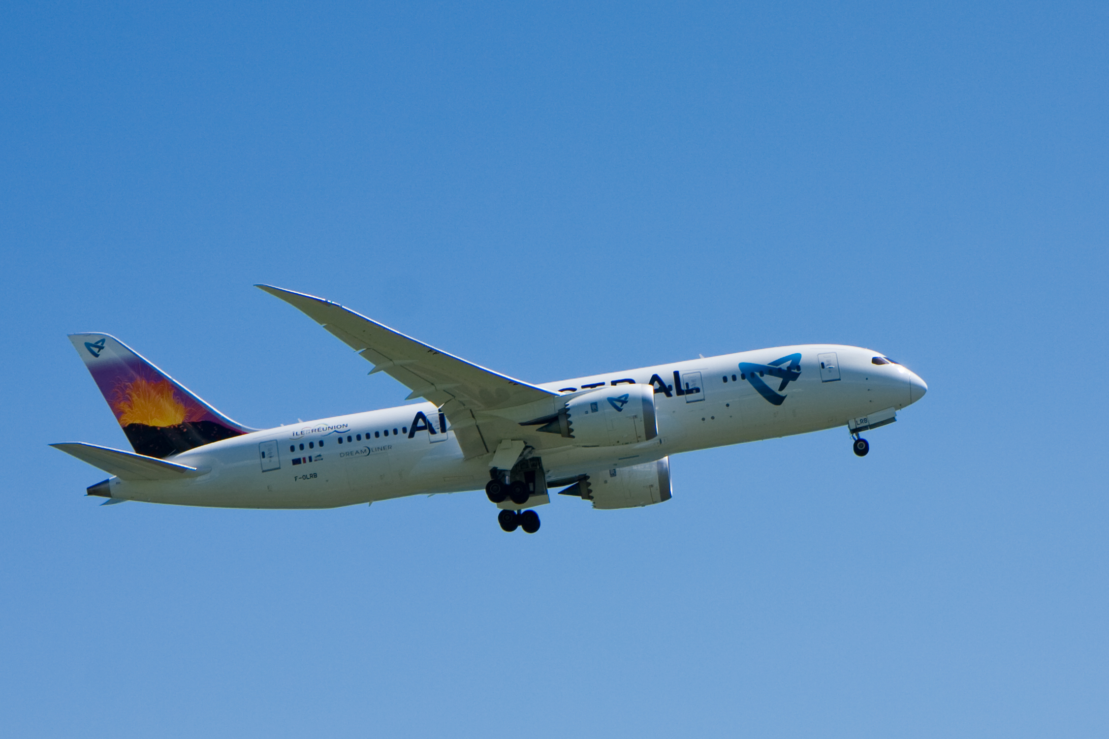 Air Austral Boeing 787-8 taking off from Roland Garros Airport, La Réunion February 2017